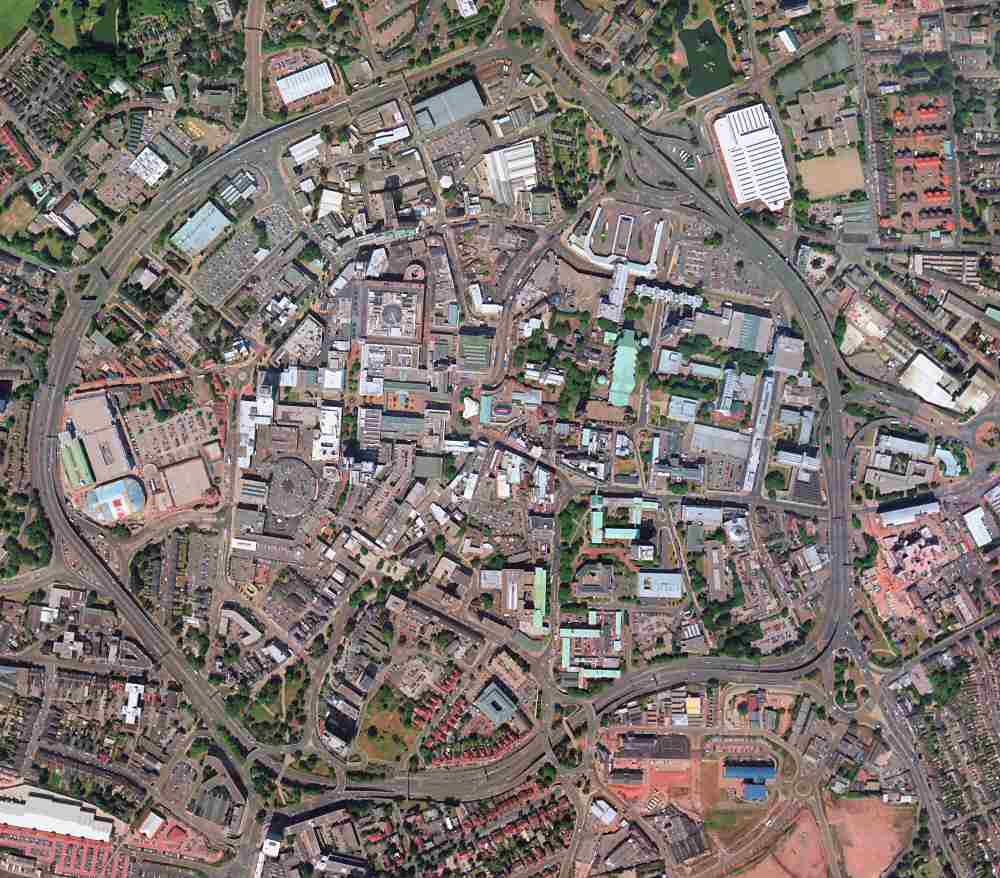 Aerial view of Coventry's city center, Coventry, England